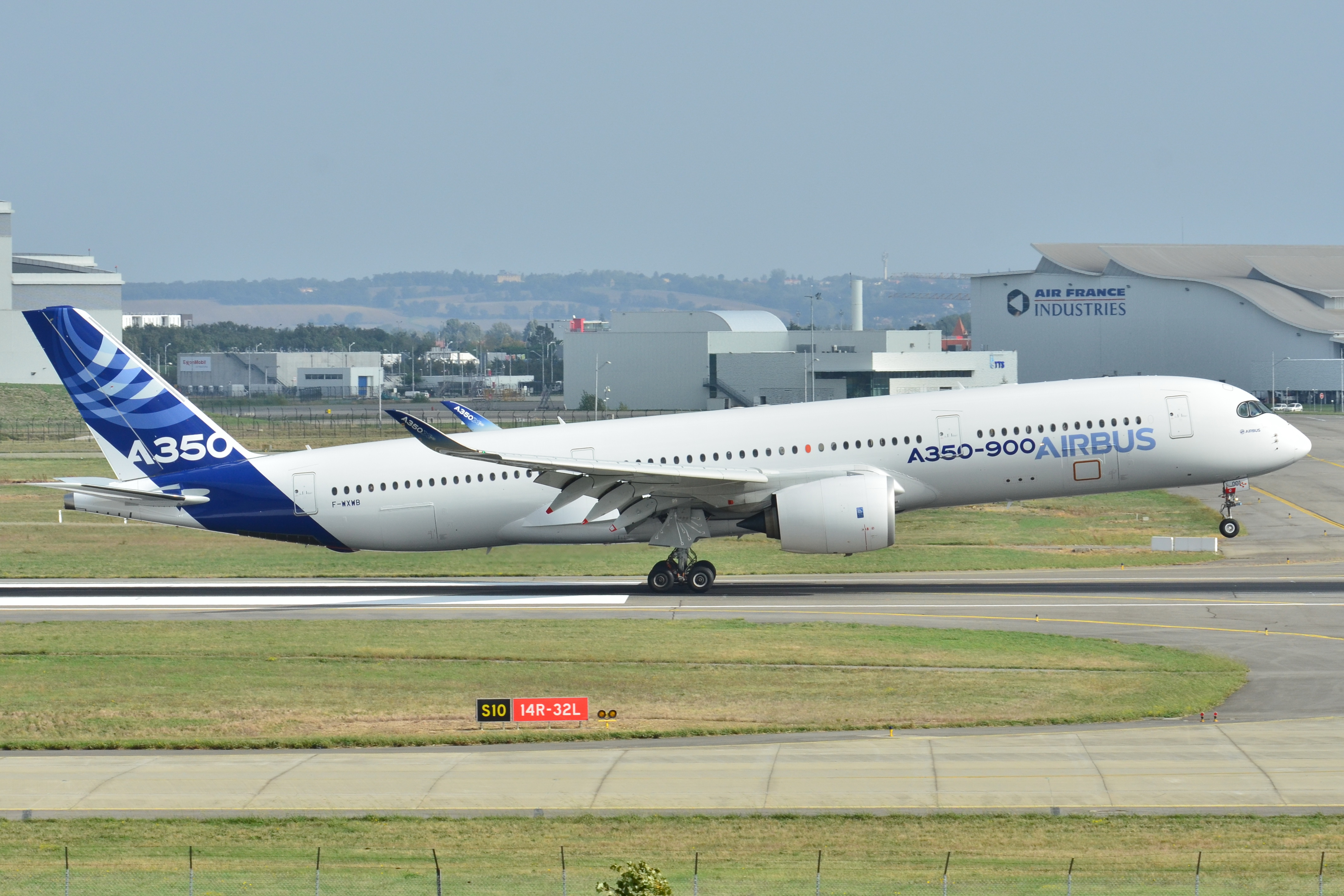 Picture take at Toulouse-Blagnac Airport (LFBO) in France. Other photographs in this sequence : File:Airbus A350-900 XWB Airbus Industries (AIB) MSN 001 - F-WXWB (10498346544).jpg File:Airbus A350-900 XWB Airbus Industries (AIB) MSN 001 - F-WXWB (10498312245).jpg File:Airbus A350-900 XWB Airbus Industries (AIB) MSN 001 - F-WXWB (10498340214).jpg